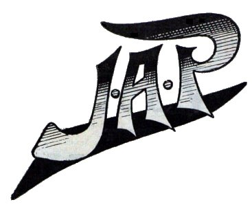 J. A. Prestwich logo (1903 advertisement cropped)